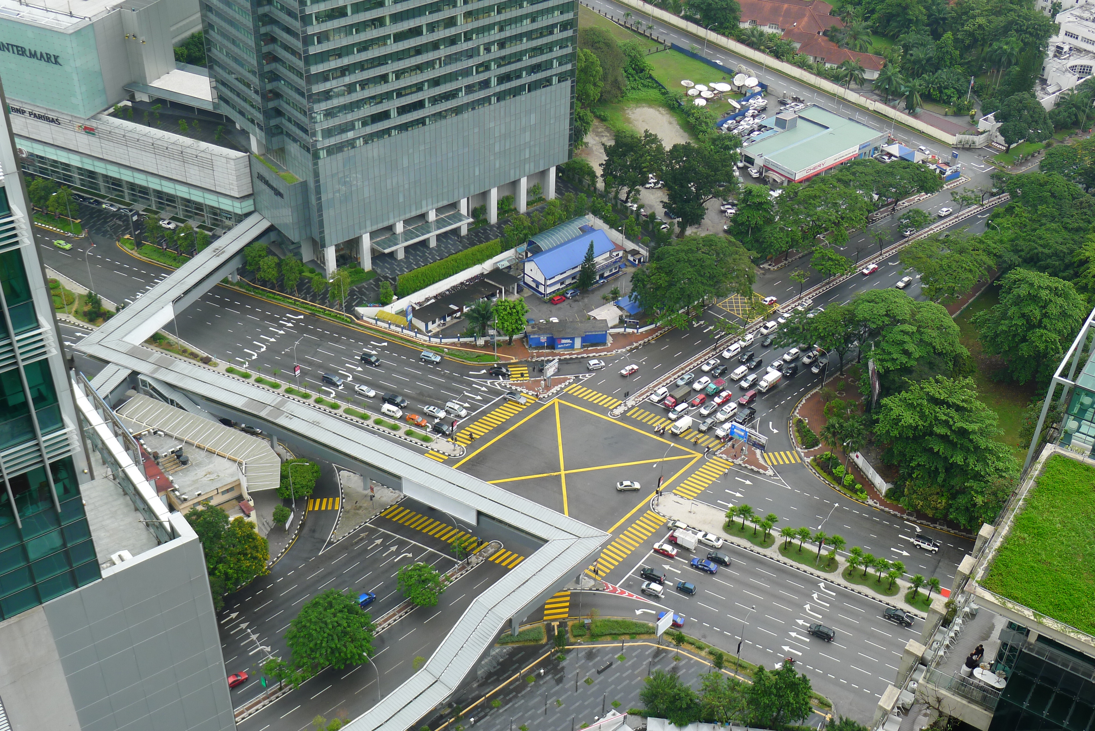 Aerial shot of the intersection between major thoroughfares Jalan Tun Razak and Jalan Ampang in Kuala Lumpur, Malaysia.